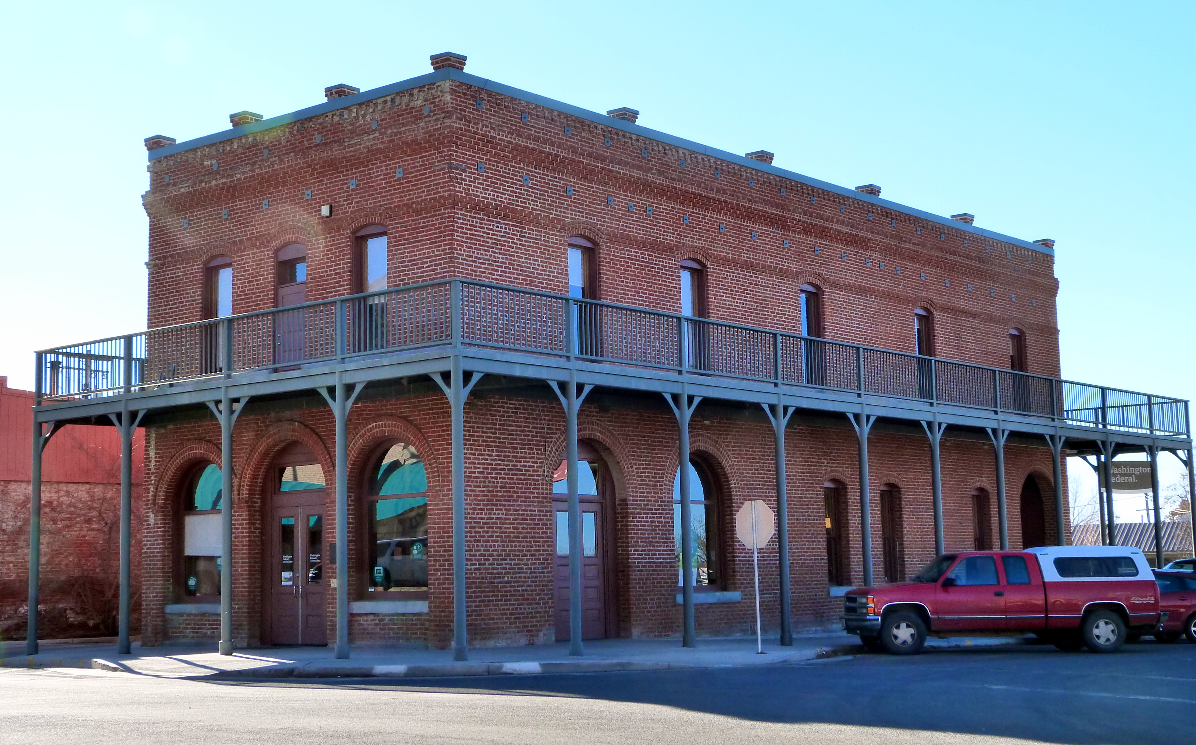 The historic Post and King Saloon (built 1901), located at 103 North E Street in Lakeview, Oregon, United States, is listed on the US National Register of Historic Places. As of the photo date, the building is in use as a bank.